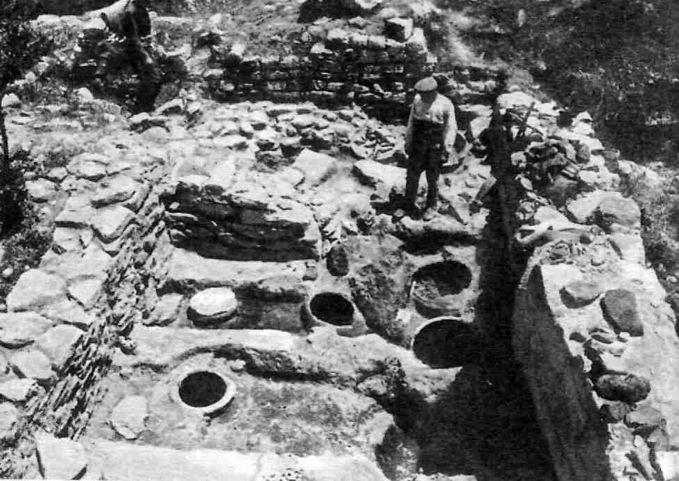 Dig in Troy (1937)